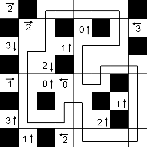 Yajilin Puzzle solved